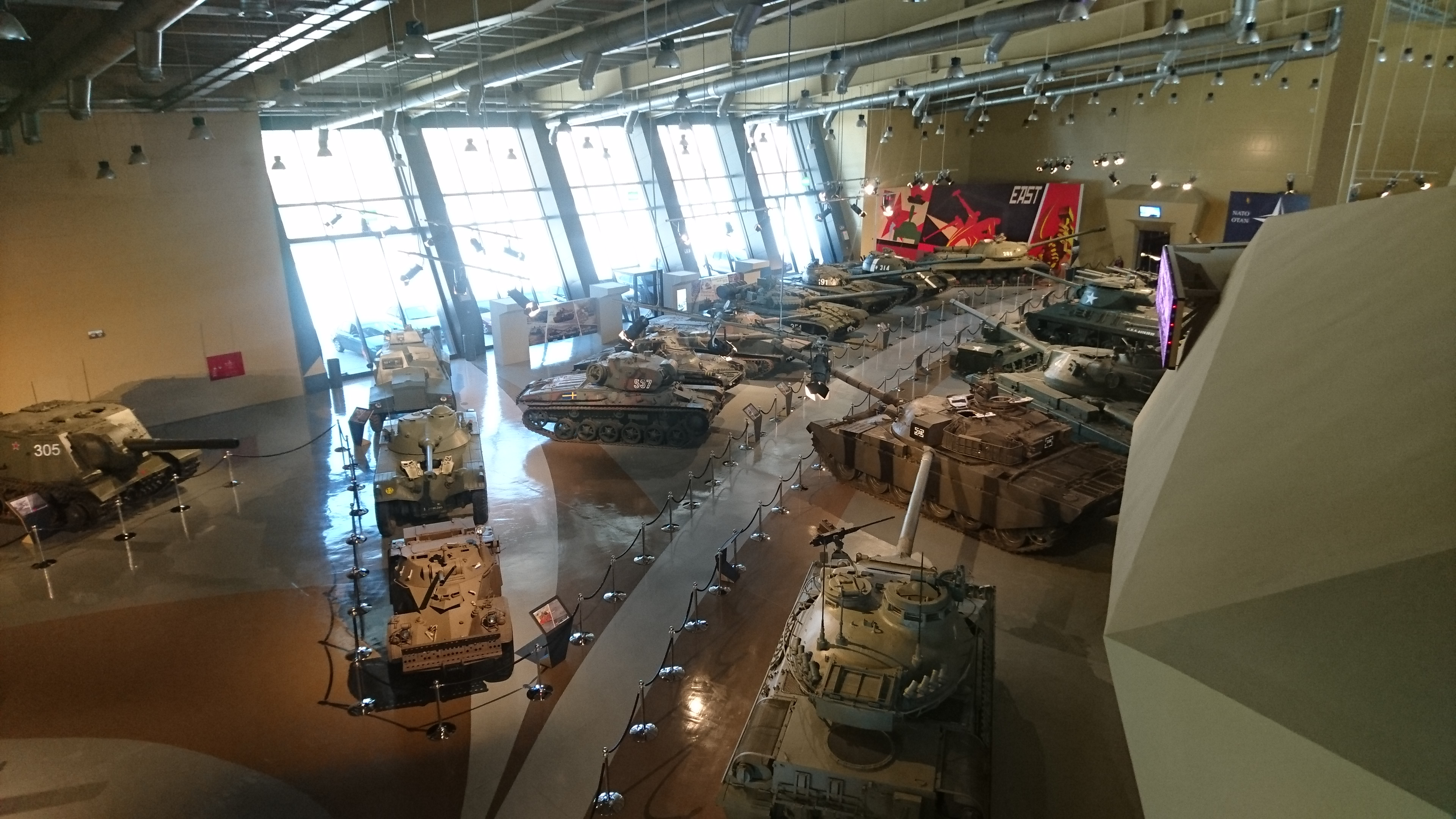 Royal Tank Museum